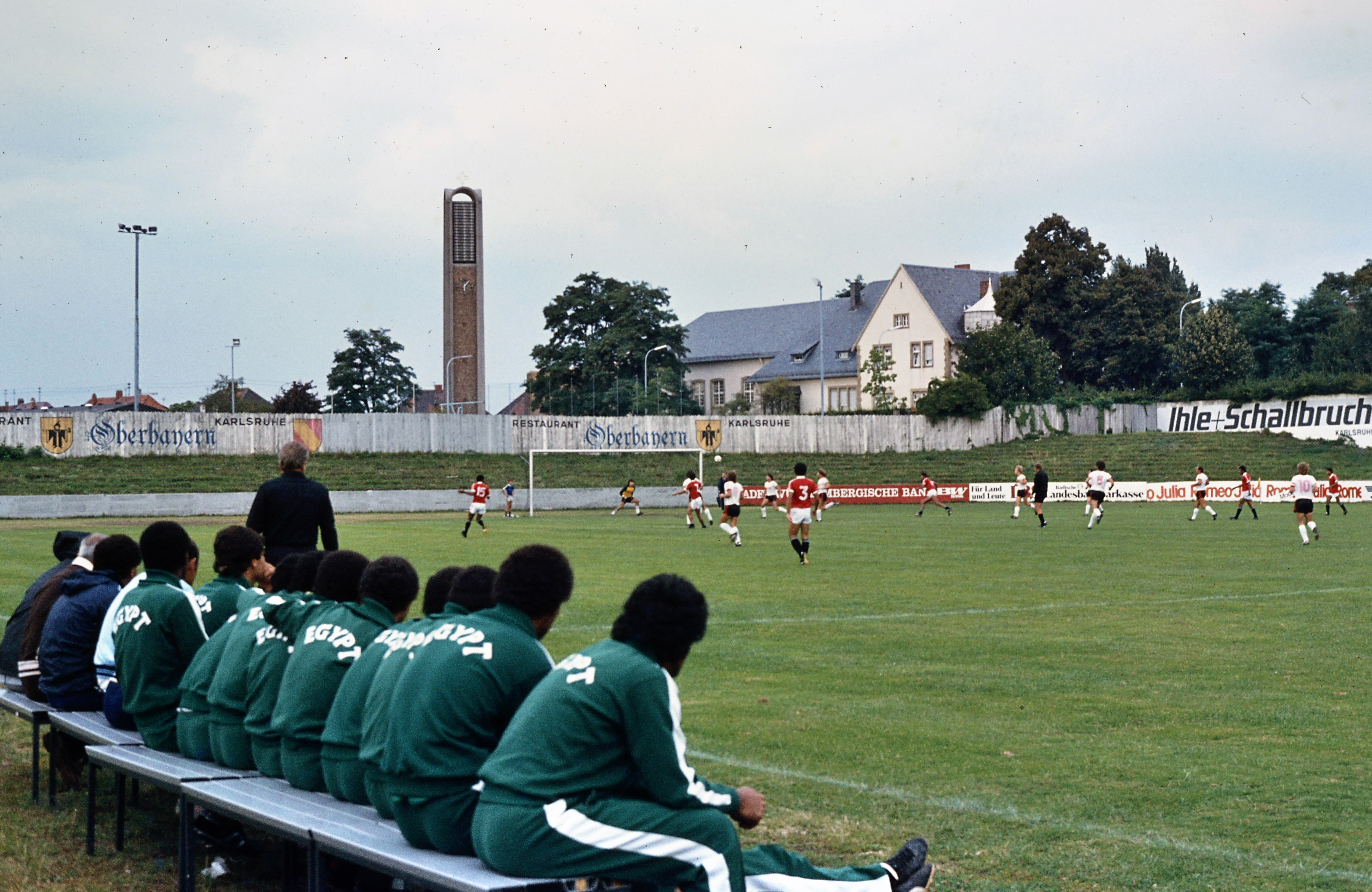 Friendly match between Karlsruher FV and Egypt national football team